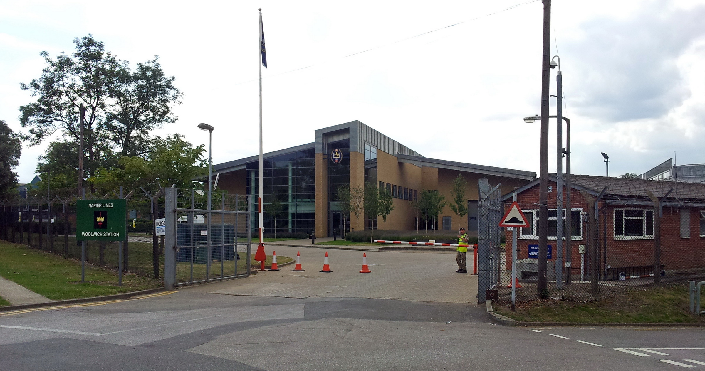 View from Green Hill of Napier Lines barracks, built in 2011-12 to house the King's Troop, Royal Horse Artillery, Woolwich, Southeast London.